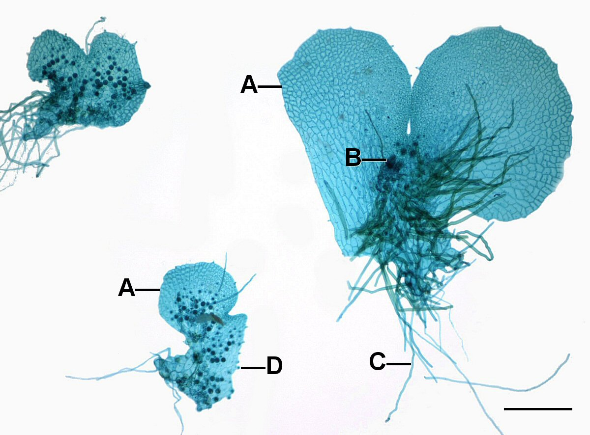 Photomicrohraph of three fern gametophytes. A-Gametophytes, B-Archegonia, C-Rhizoid, D-Antheridia. Scale=0.525mm.